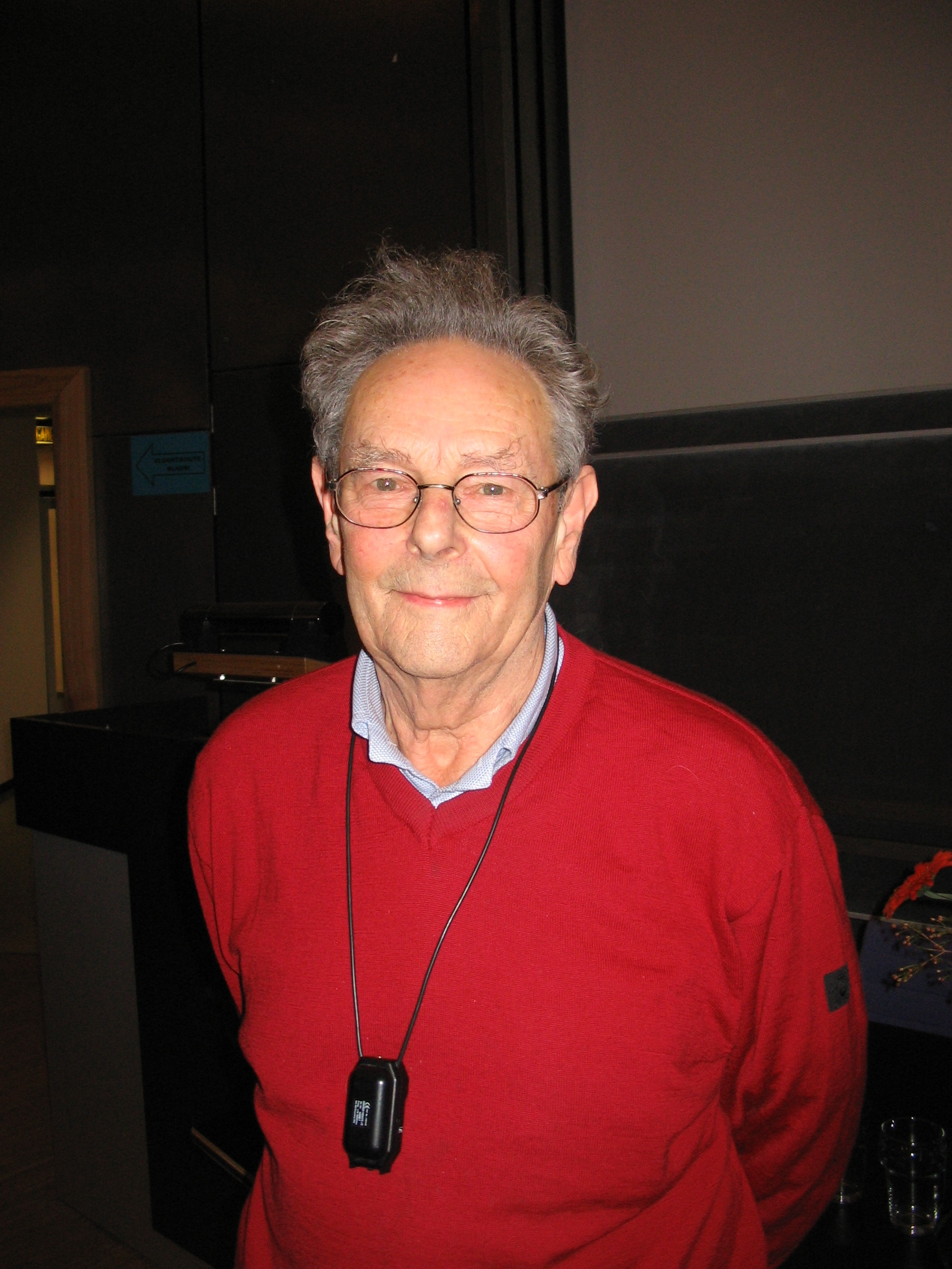 Portrait of Dutch psychology professor Nico Frijda